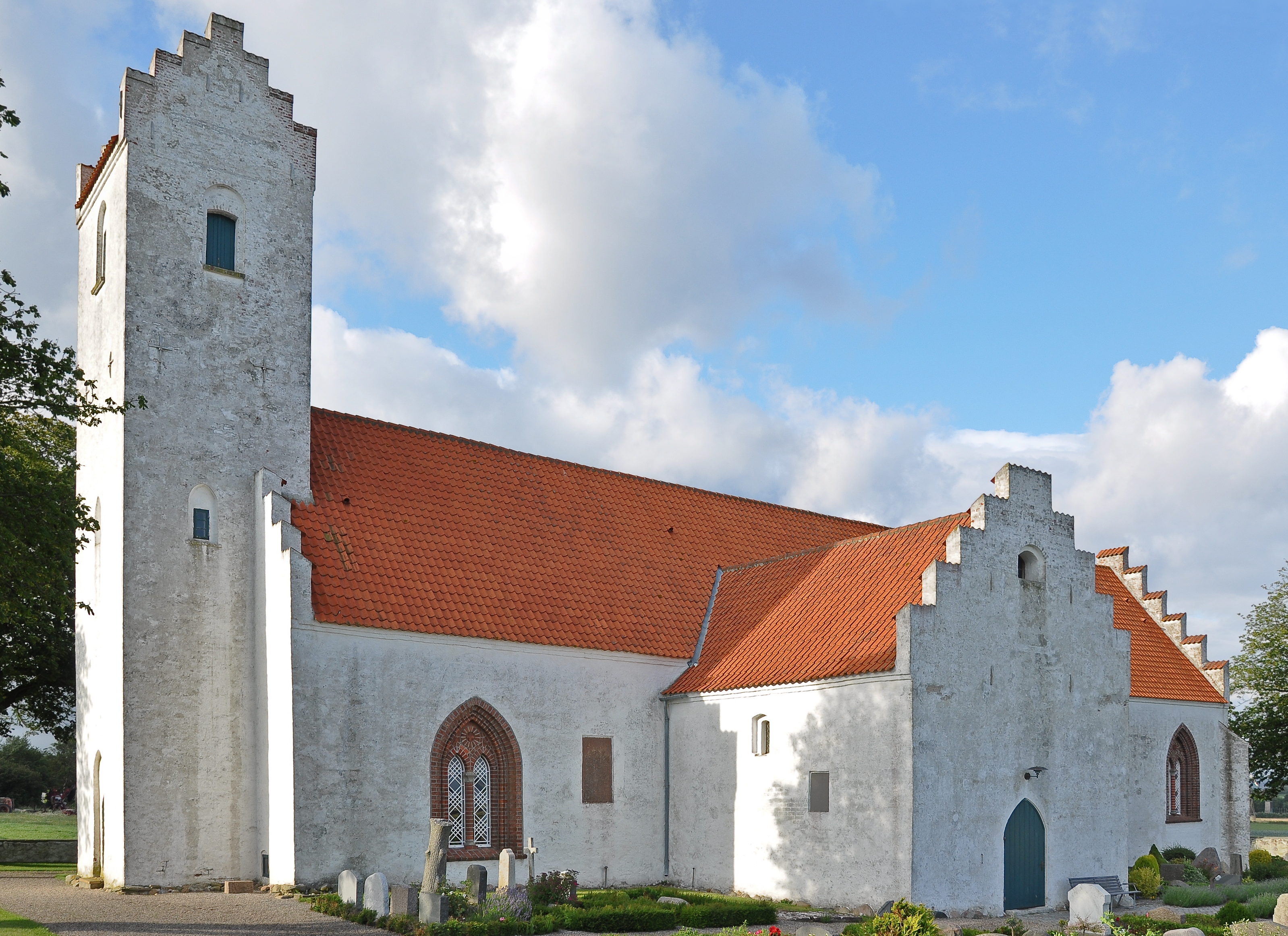 Nordby Church (Samsø Municipality, Denmark).